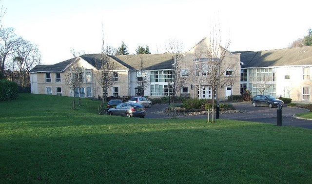 Ellen's Glen House The new residential hospital built by Lothian NHS in the grounds of Southfield House to provide continuing care for the elderly.